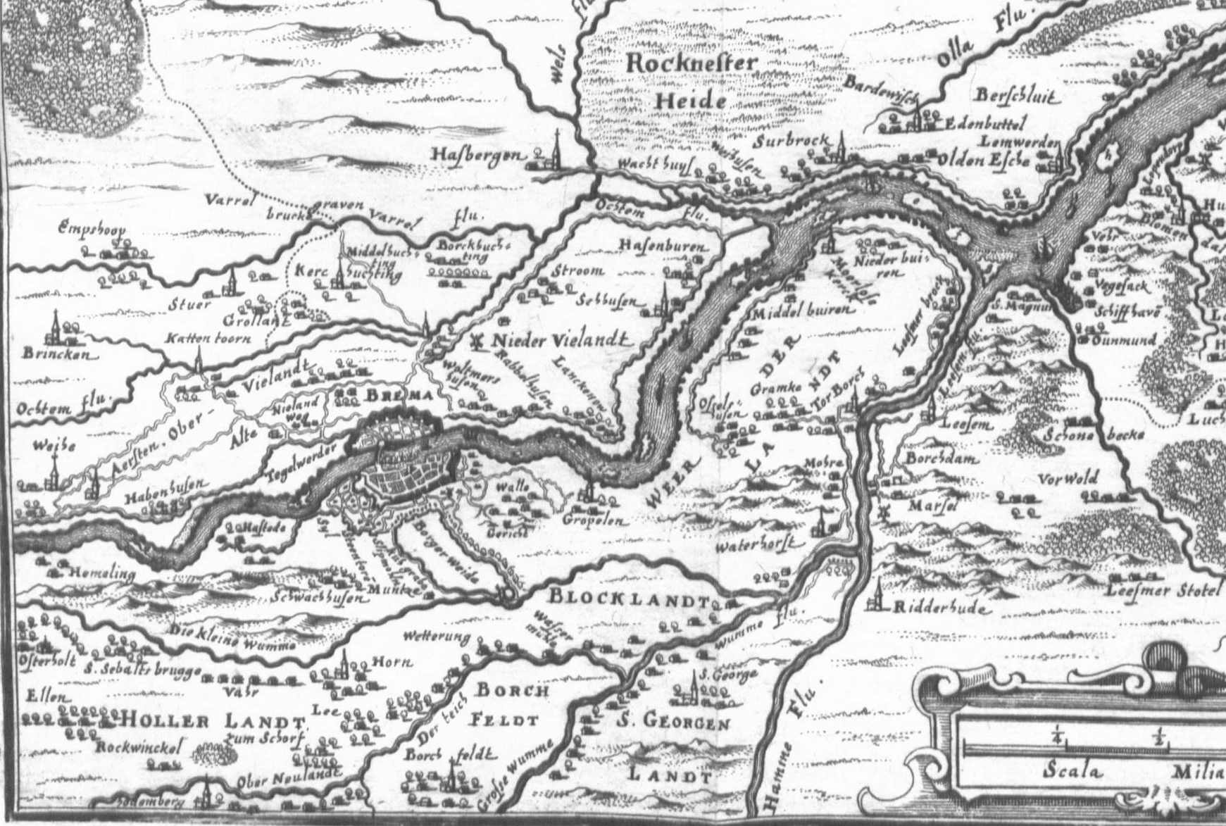 Bremen and its environs between 1643 an 1648, cut of the map "Well known Saxon river Weser with adjacent territories from incl. Bremen to the mouth", printed probably, incuding Jade Bight